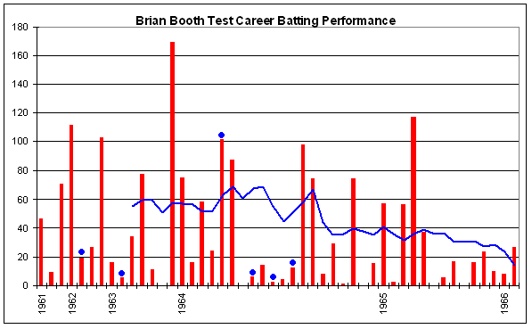 Test batting chart of Brian Booth. Red columns are the runs in the innings. Blue dots indicate not outs. Blue line is average in the last ten innings. Thanks to Raven4x4x for providing the template. Source for the stats is Statsguru - BC Booth - Tests - Innings by innings list. Cricinfo. Retrieved on 2007-04-02.